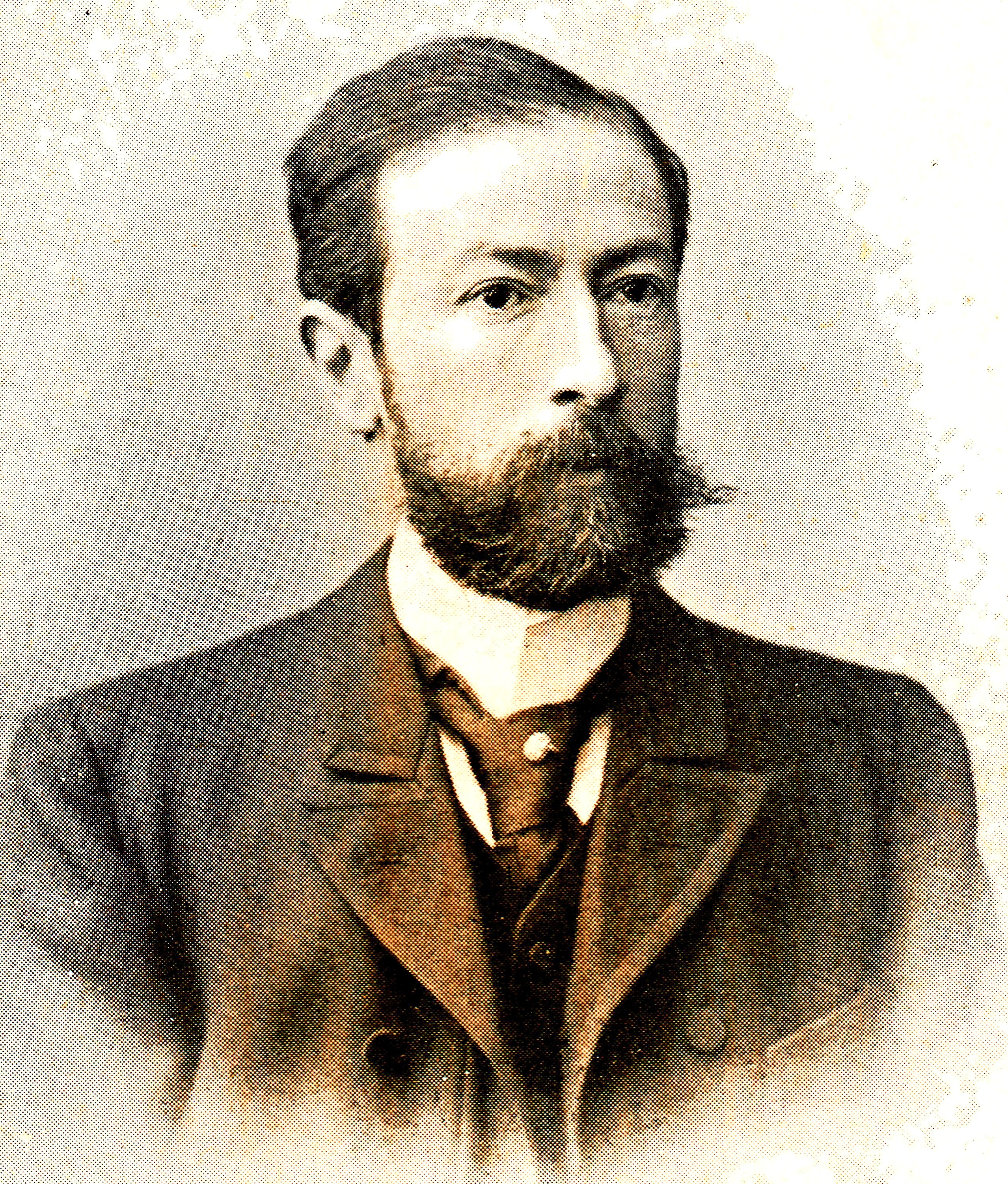 Jhr. Mr. L.H. Ruyssenaers